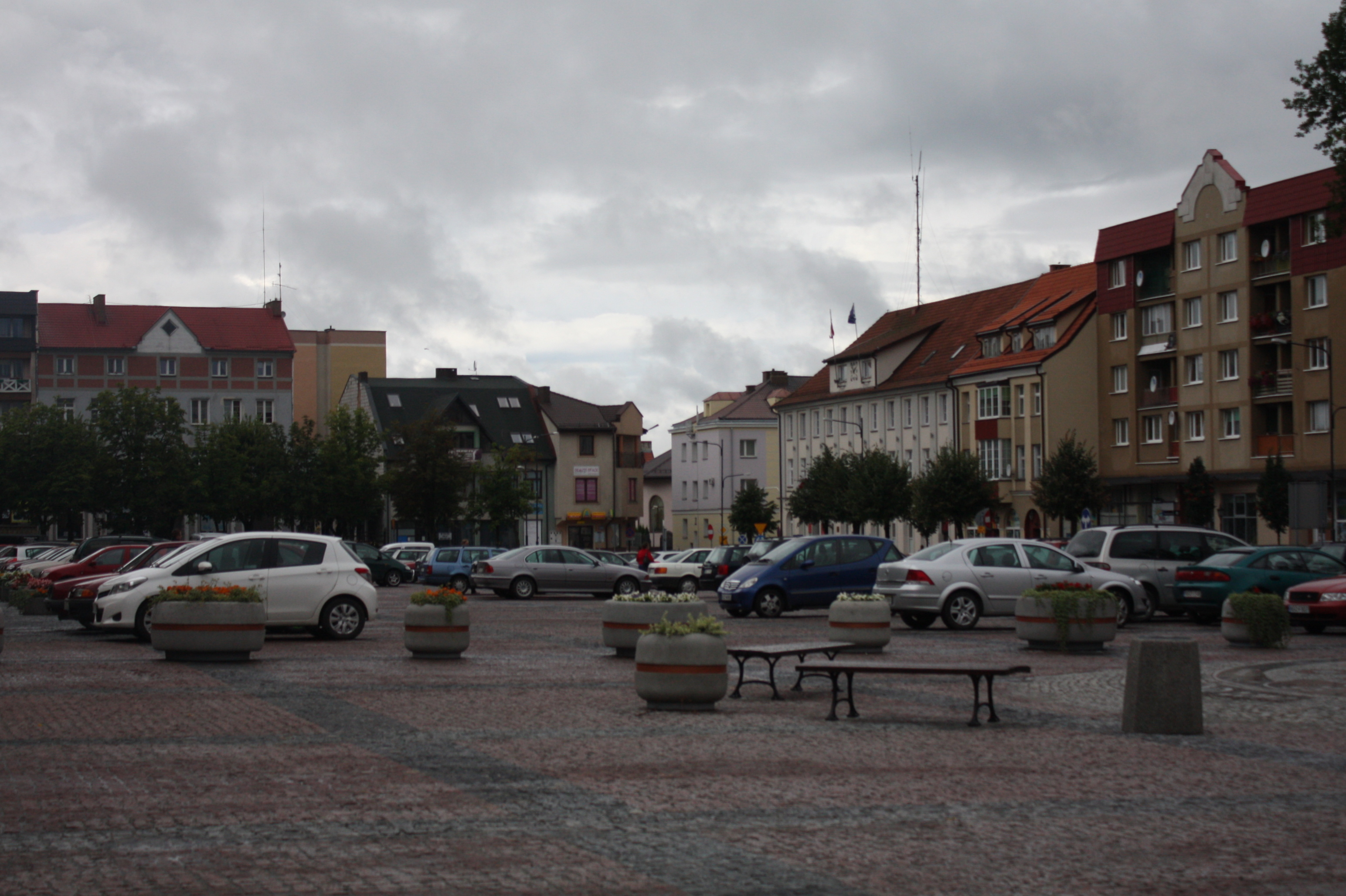 This photo of Warmian-Masurian Voivodeship was taken during Wikiexpedition 2012 set up by Wikimedia Polska Association. You can see all photographs in category Wikiekspedycja 2012. The making of this document was supported by Wikimedia Polska.